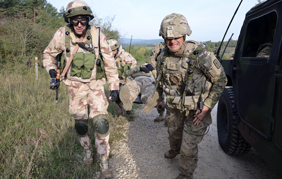 Hungarian army infantry 1st Lt. Balint Szekely (left) and U.S. Army Maj. Scott Elias, officer-in-charge of Ohio National Guard Operational Mentor and Liaison Team 1.9 and a Parma, Ohio, native, carry a litter during a training exercise Sept. 17, 2012, at the Joint Multinational Readiness Center in Hohenfels, Germany. The exercise is designed to replicate the Afghanistan operational environment, in order to prepare Hungarian and U.S. troops for counterinsurgency operations along with the ability to train, advise and enable the Afghan National Army and Afghan National Police.